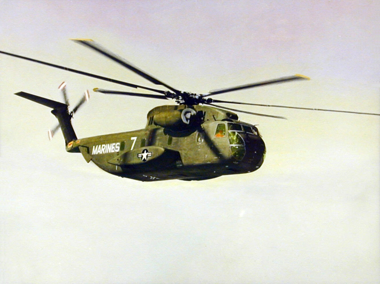 A U.S. Marine Corps Sikorsky CH-53A Sea Stallion helicopter in flight.